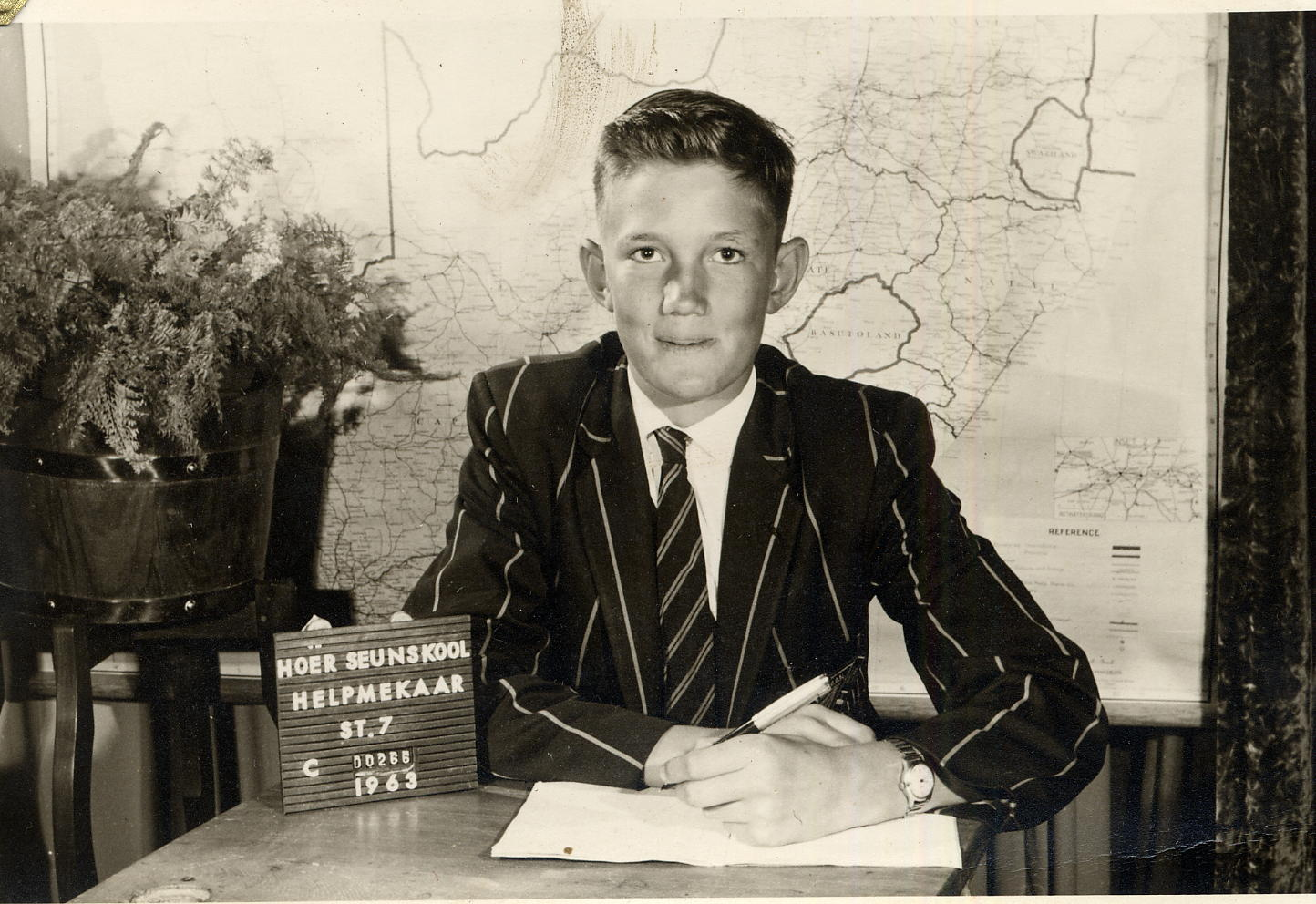 This is Piet Dreyer at Helpmekaar Boys High, Johannesburg, in 1963. Piet was in Standard seven, aged 14.